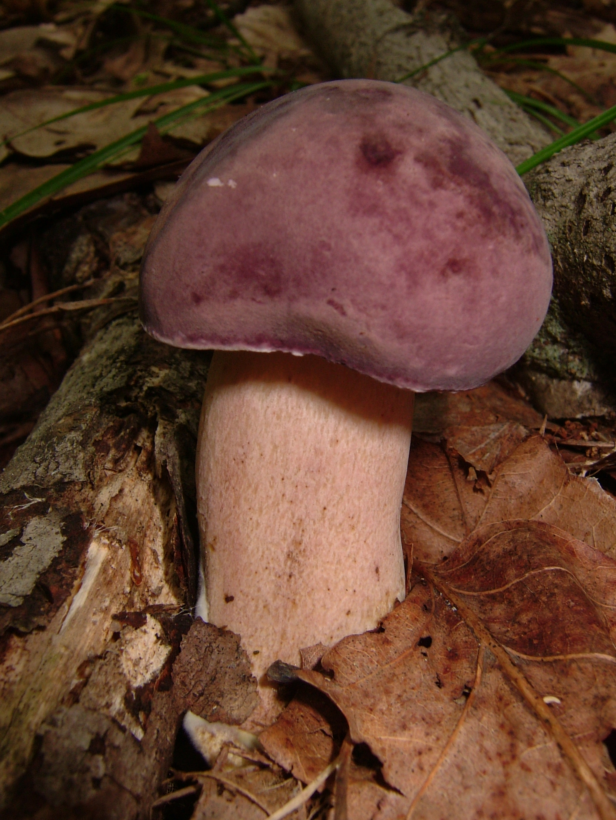 Xanthoconium purpureum (Snell & E.A. Dick) Location: Washington Crossing State Park, Mercer Co., New Jersey, USA Notes: Looks a bit like a young T. rubrobruneus from the top (see the first 2 pics), but the pores are yellowish; this feature alone removes it from that genus. NB: this collection was discovered in the same park (but different spot) and on the same day/year as that of observation #26489, so both could be the same thing.